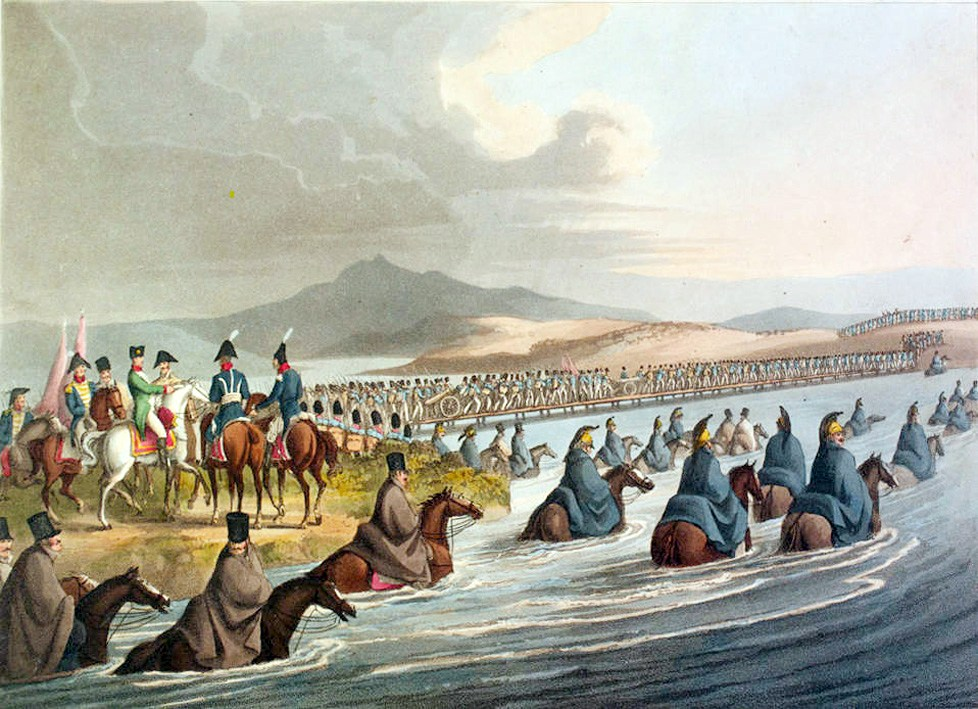 The boasted crossing of the Niemen, at the opening of the campaign in 1812, by Napoleon Bonaparte.